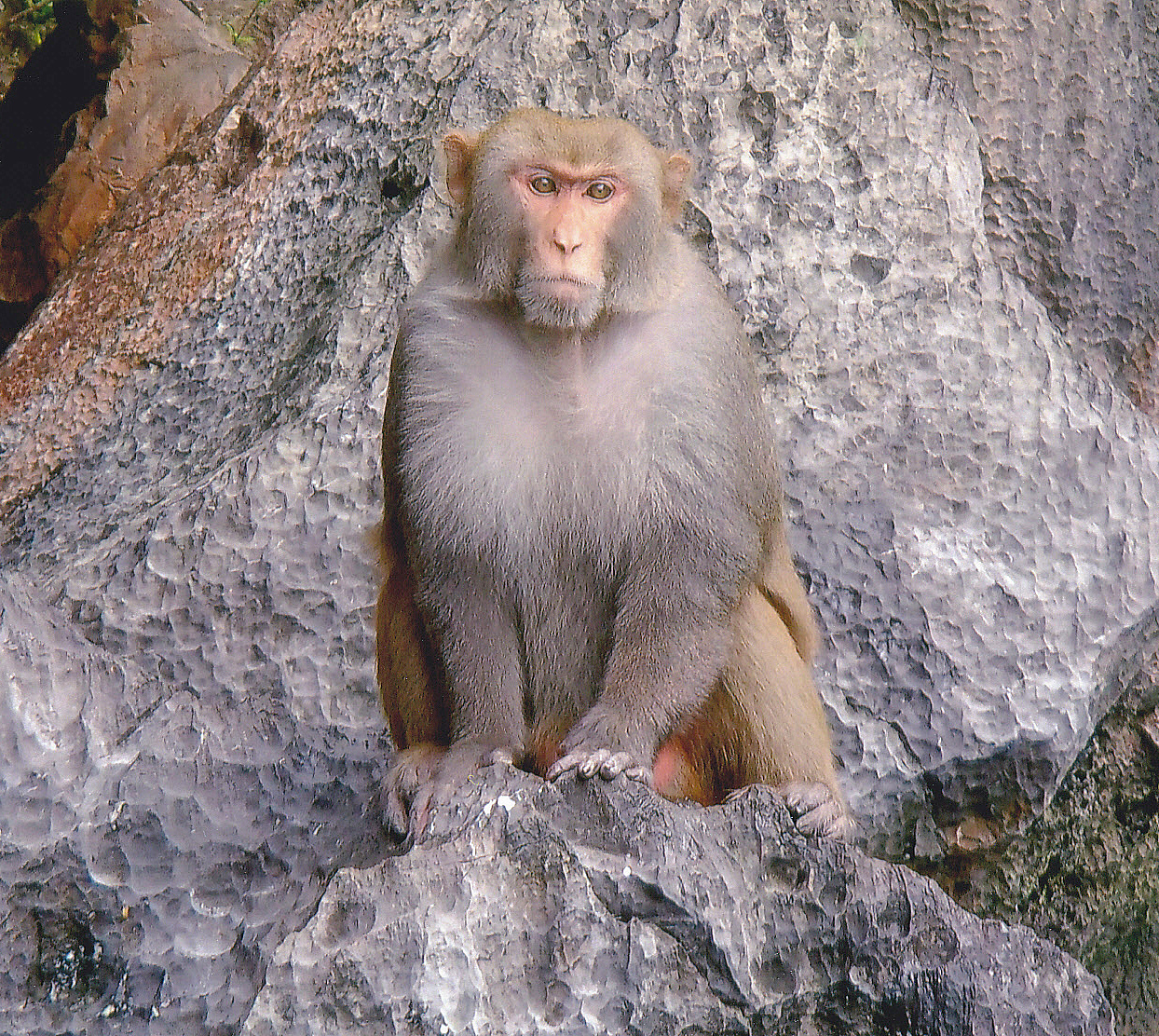 Large monkey on a rock in Vietnam